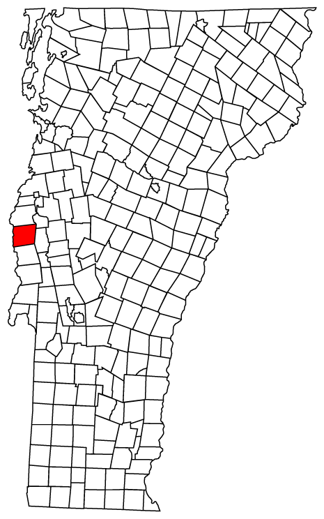 Description: Map of Vermont towns with Bridport highlighted Source: Map created by Jared C. Benedict on 26 March 2004. Copyright: © Jared C. Benedict.